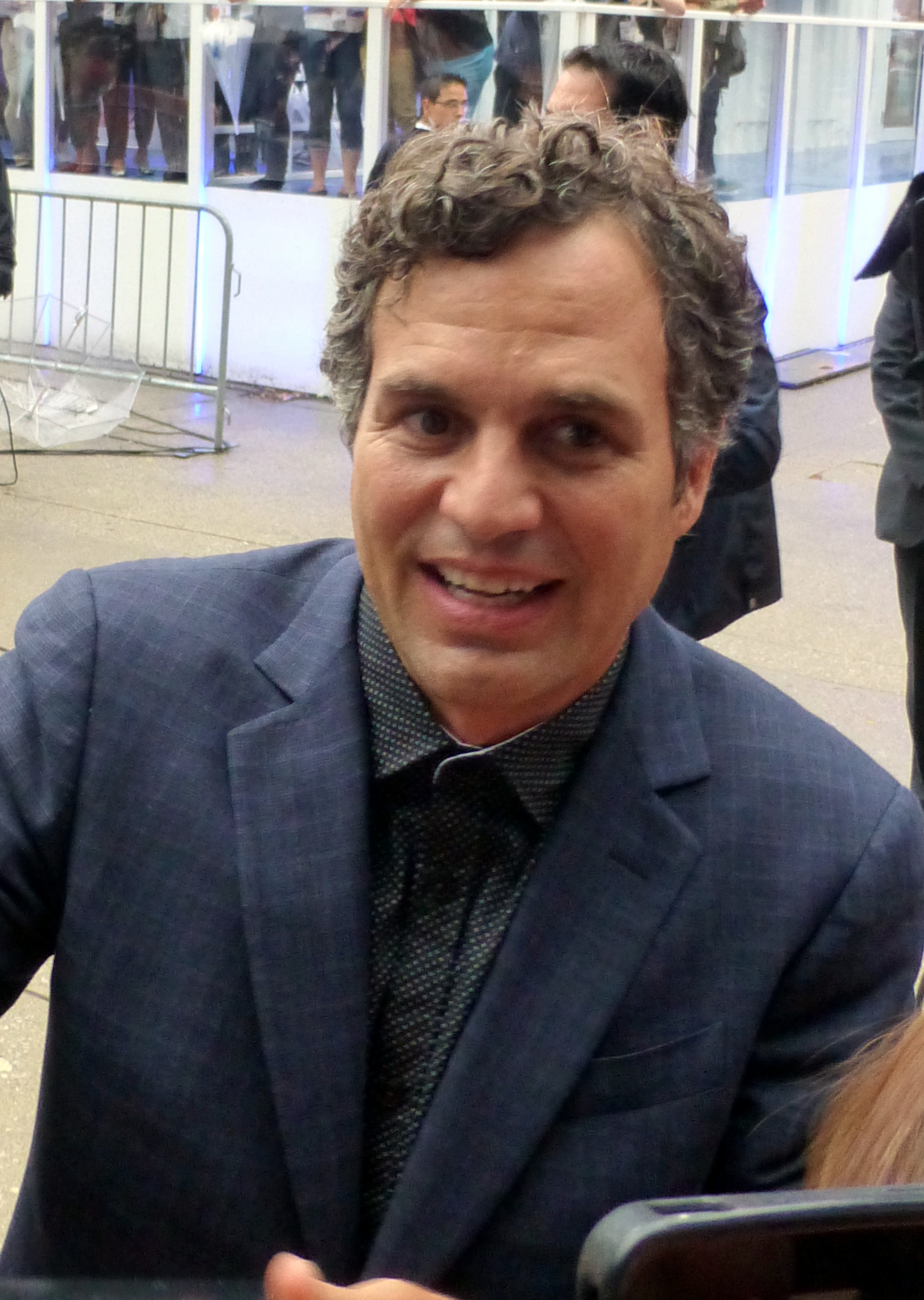 Mark Ruffalo at the premiere of Infinitely Polar Bear, Toronto Film Festival 2014